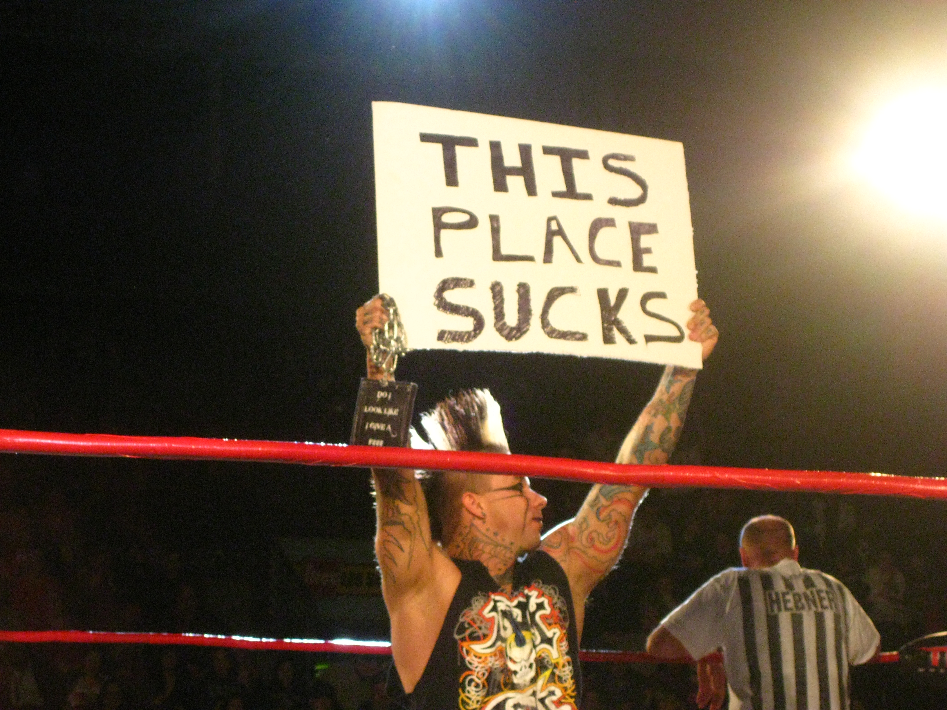 A TNA Live! Even at the ShoWare Center in Kent, WA. No PRO cameras were allowed so I had to put my Canon PowerShot SD1100 IS to work!